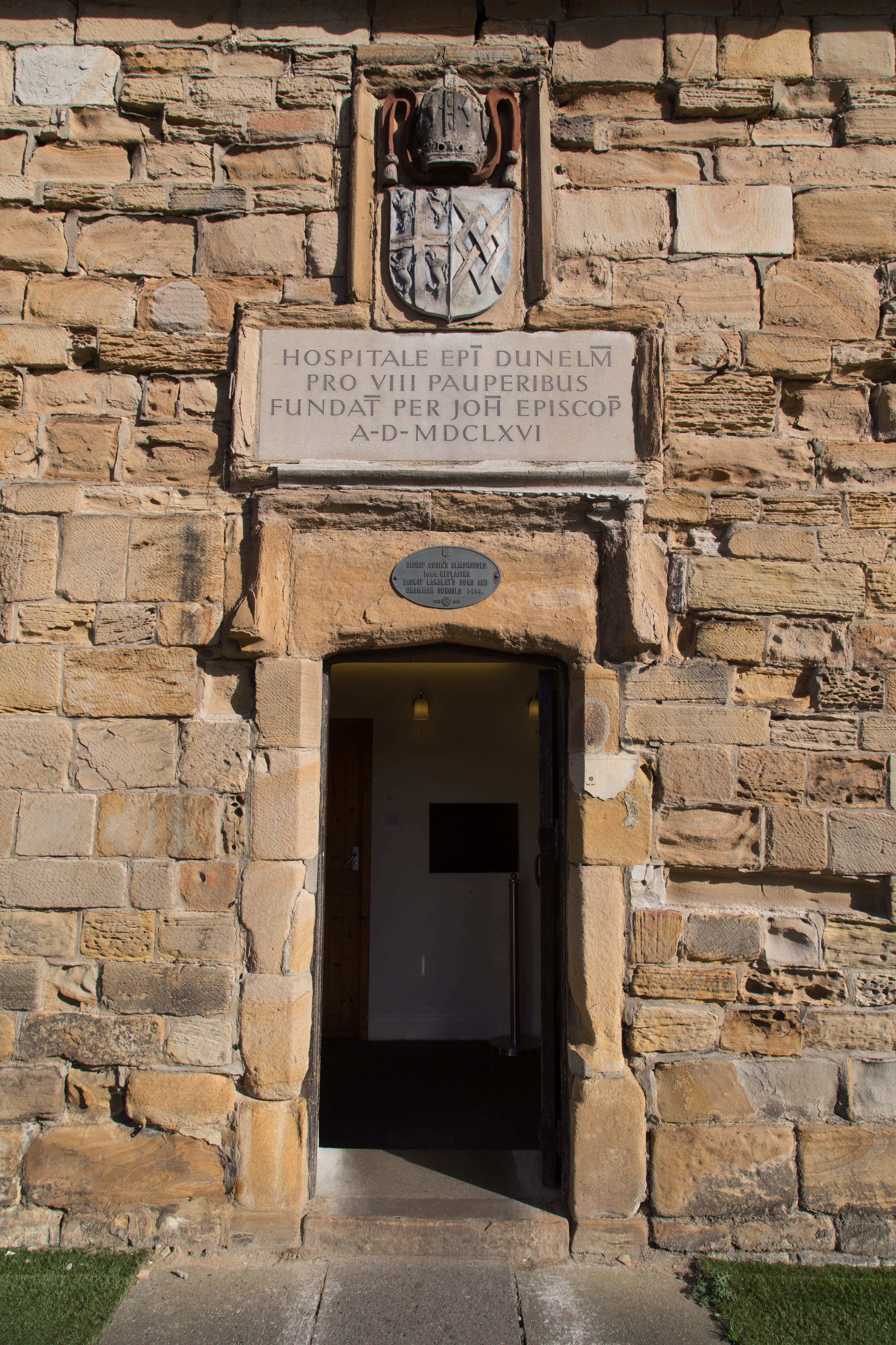 Almshouses for 8 paupers established in Durham in 1666 by John Cosin, Bishop of Durham 1660–1672. Arms of See of Durham impaling Cosin (Azure, a fret or). Now a restaurant. Wikidata has entry Q26414563 with data related to this item.